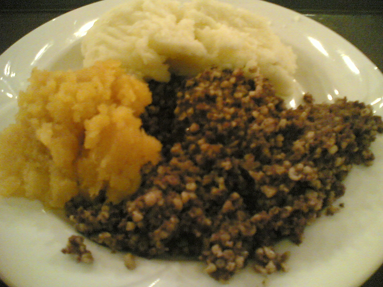 Haggis, neeps an tatties